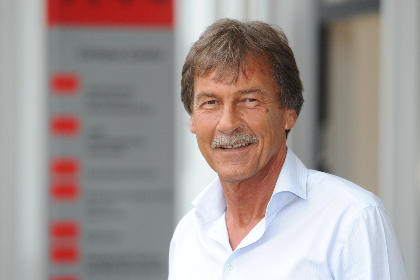 Manfred Schmitt, Professor of Molecular and Cell Biology, President of Saarland University, Germany